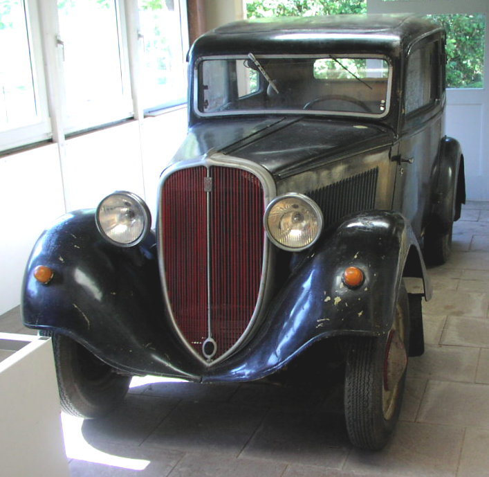 NSU-Fiat 1000 (1934) under restoration